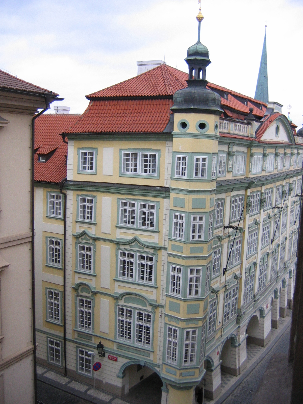 House in Nerudova and Sněmovní street in Malá Strana in Prague - used now as part of Czech parliament